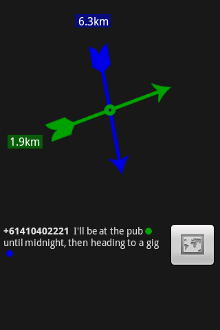 A geotagged SMS displayed in compass mode by the Android application "I Am Here"